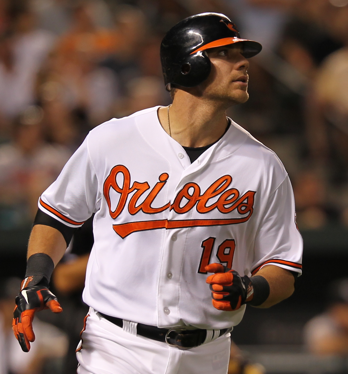 Chris Davis